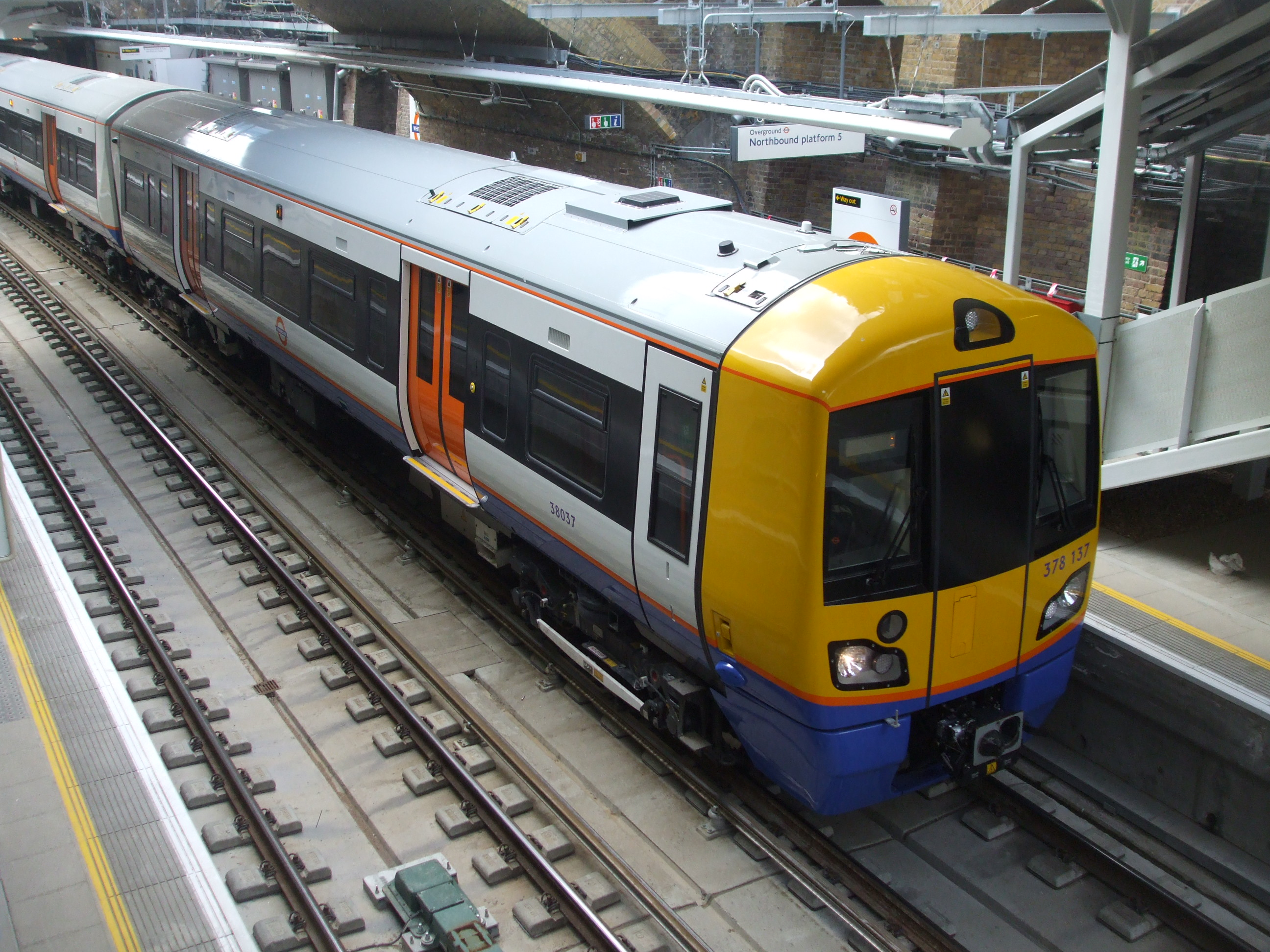 Class 378 unit 378137 calls at Whitechapel with an East London Line service to Dalston Junction.